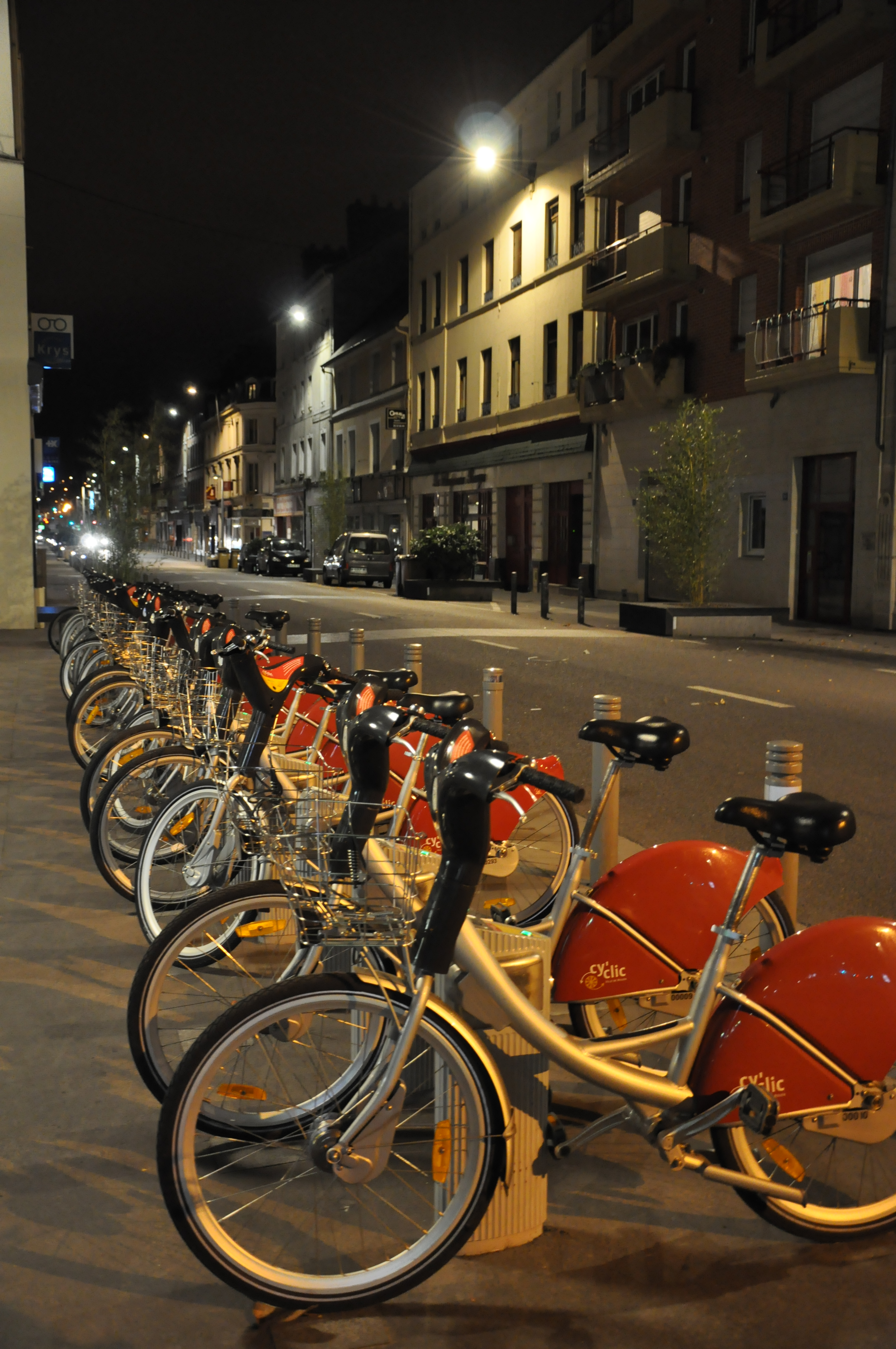 Station Cy'clic de Saint-Sever